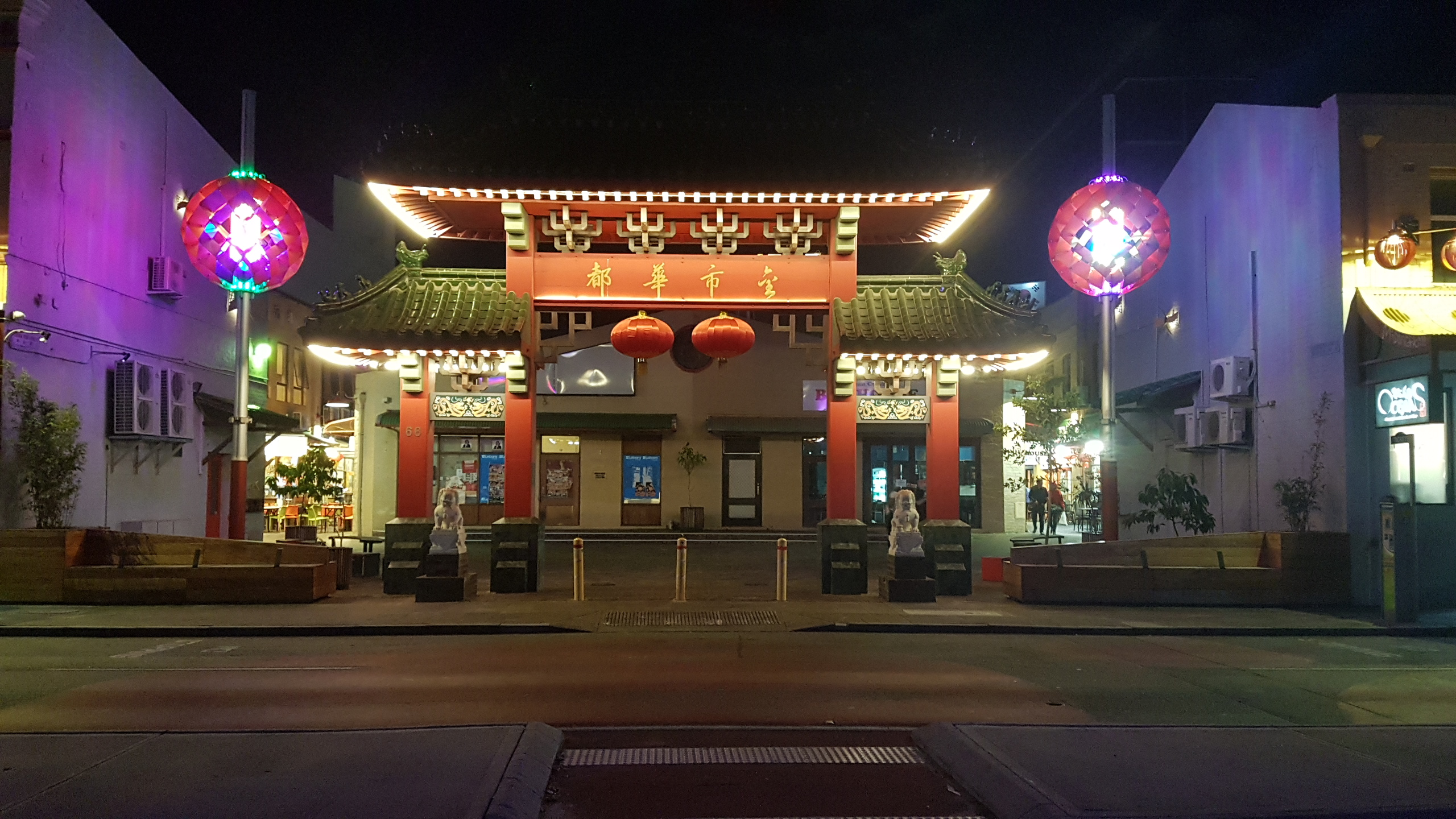 Chinatown entrance on Roe Street, Perth, Western Australia, at night.